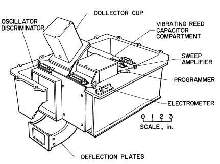 Mariner 2 electrostatic analyzer for study of solar wind